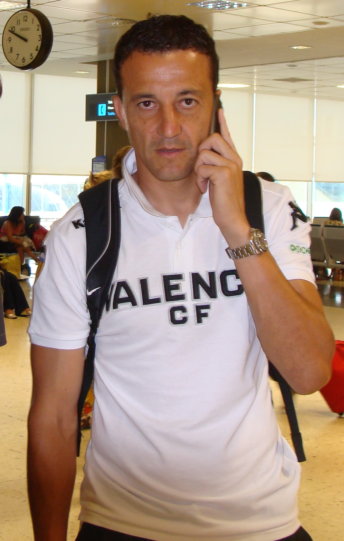 César Sánchez during the preseason with the Valencia CF